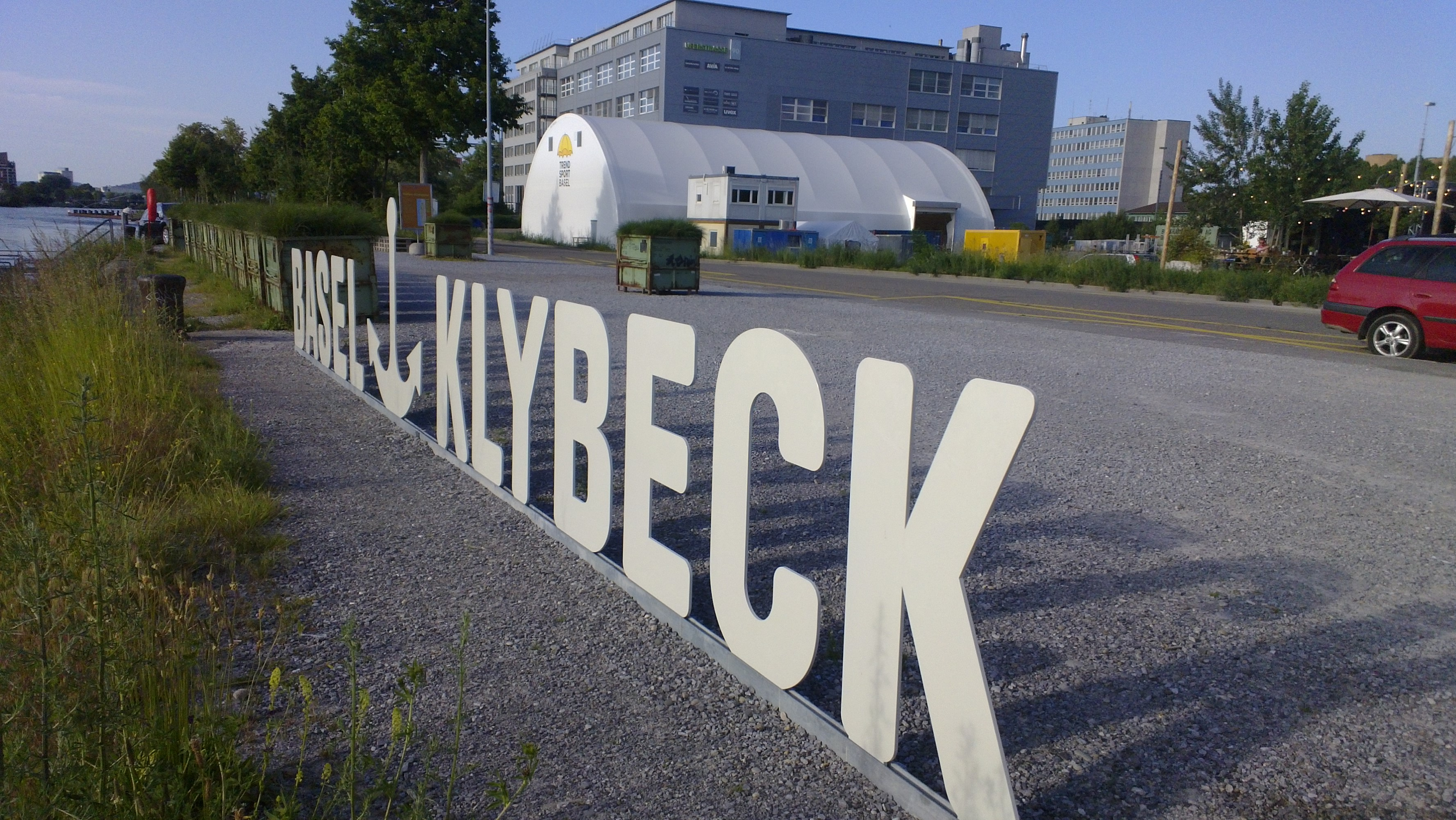 Landing place for river cruise ships in Basel-Klybeck.